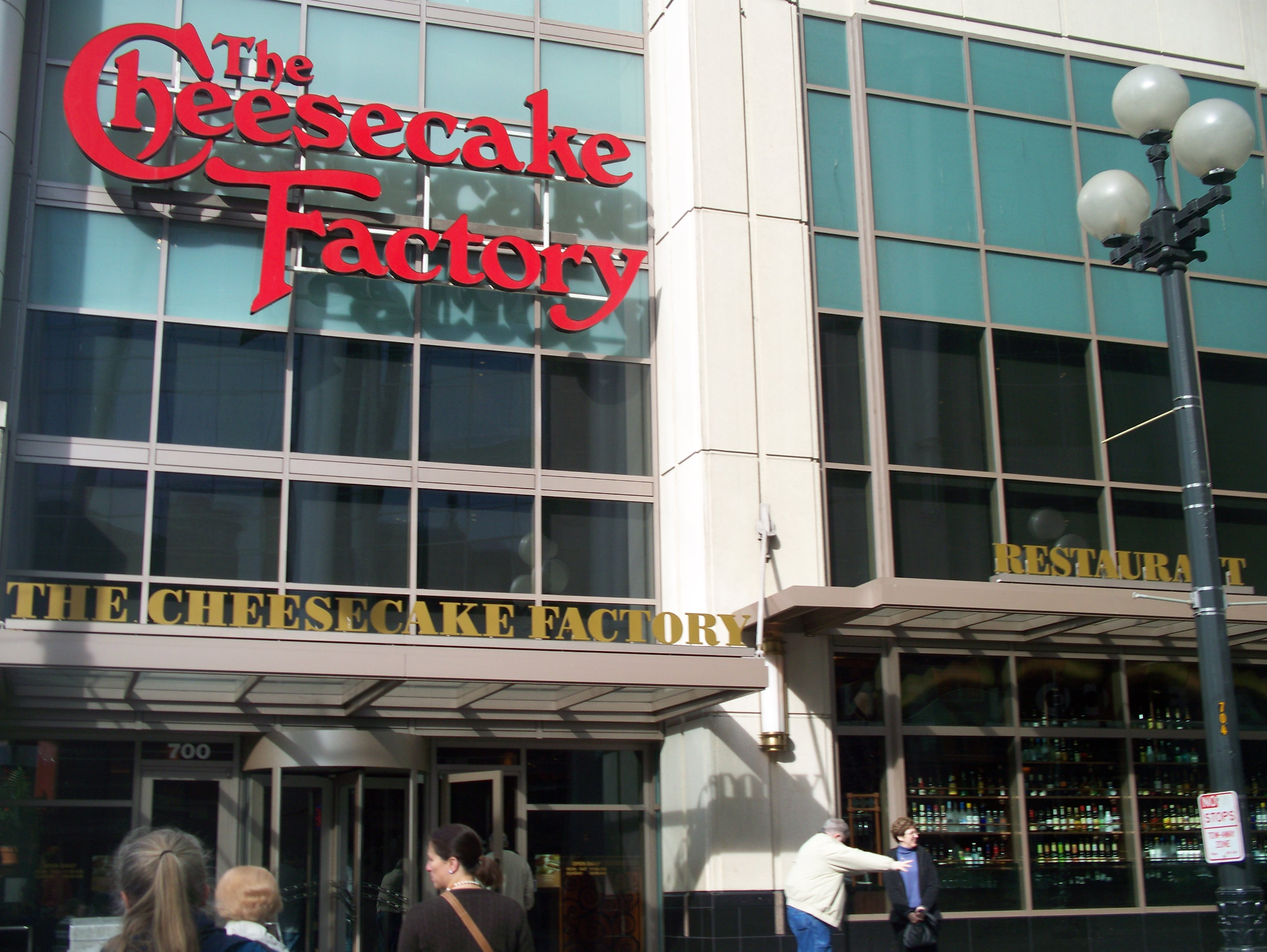 The front entrance of The Cheesecake Factory at the corner of Pike Street and 7th Avenue in Seattle